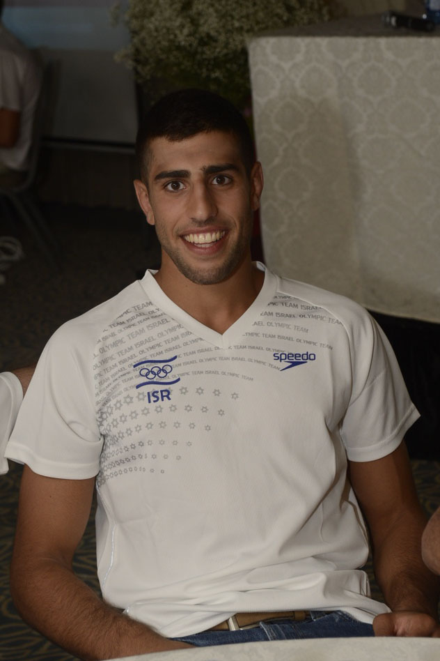 Golan Polak, 2012